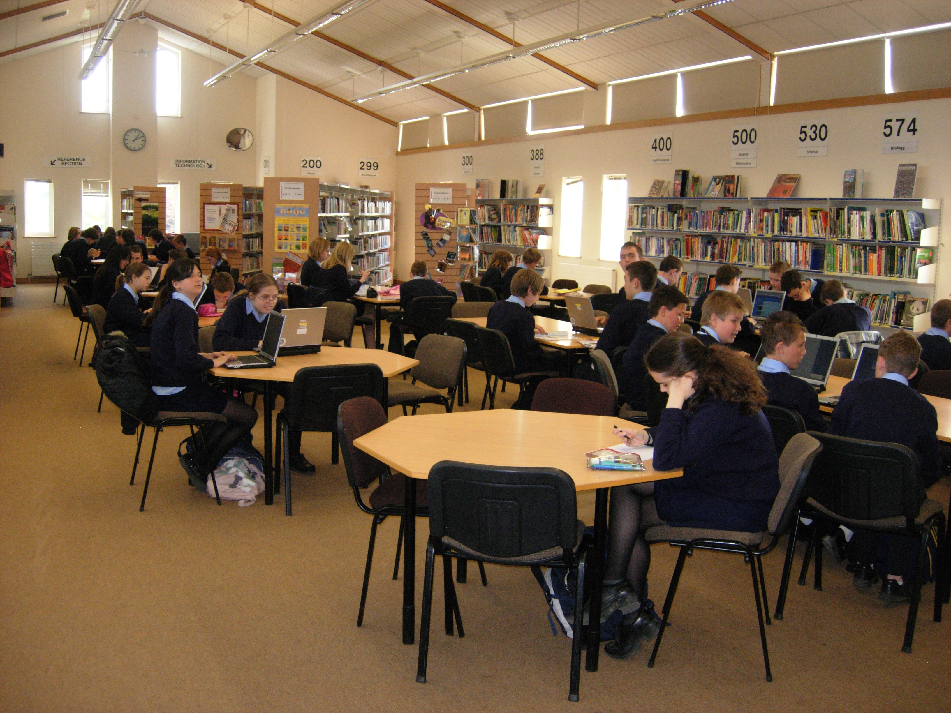 View of the library at Kennet Comprehensive School.